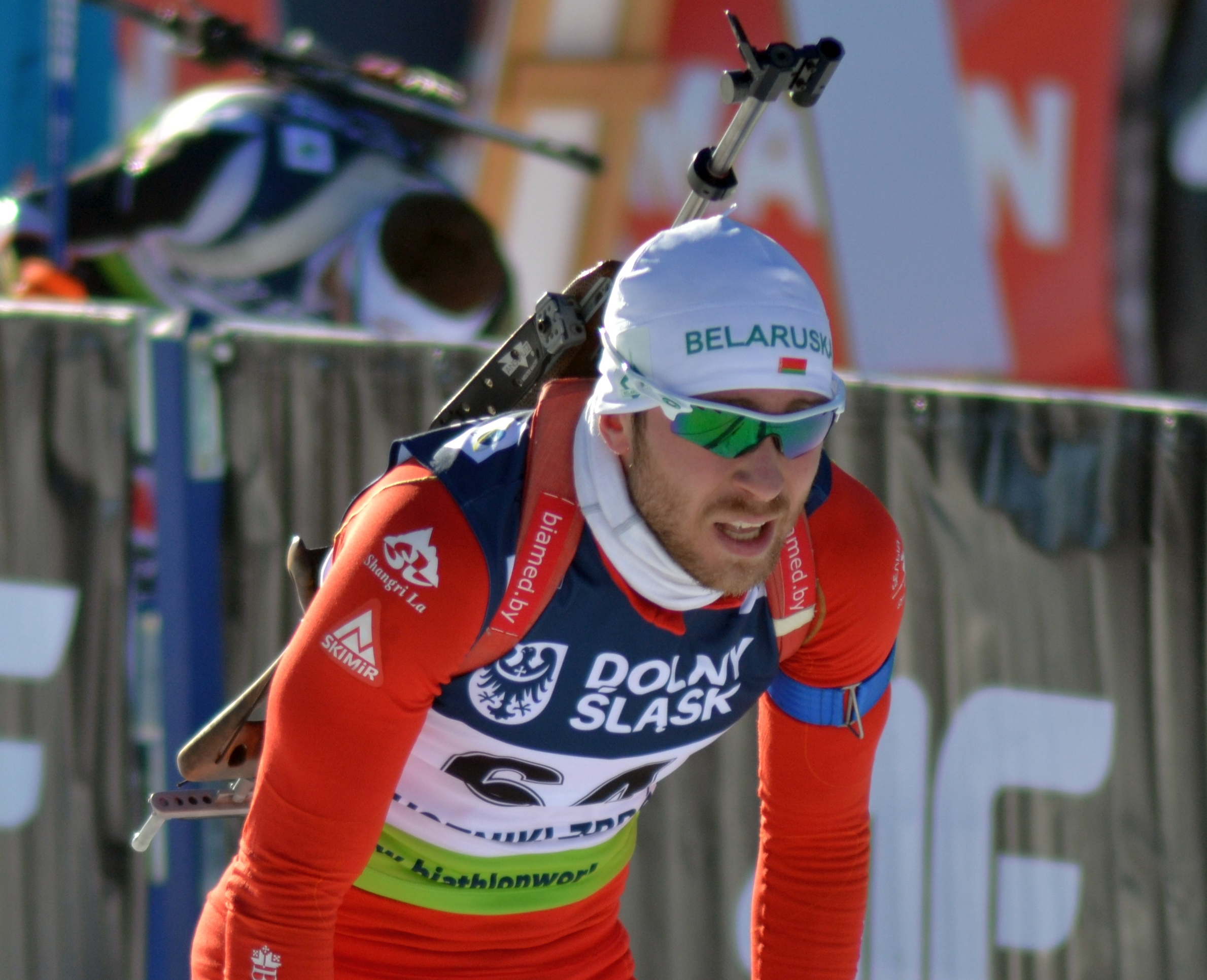 Open European Championships Biathlon 2017, Sprint Men's race, held on January 27th.